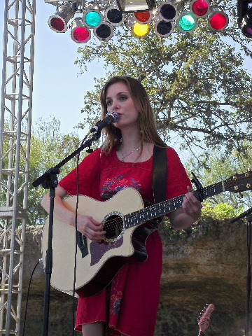 Sahara Smith performing at Austin City Limits Music Festival (2010). Photo by Ron Baker.